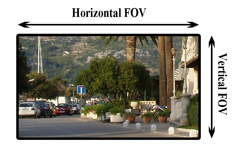 FOV in games